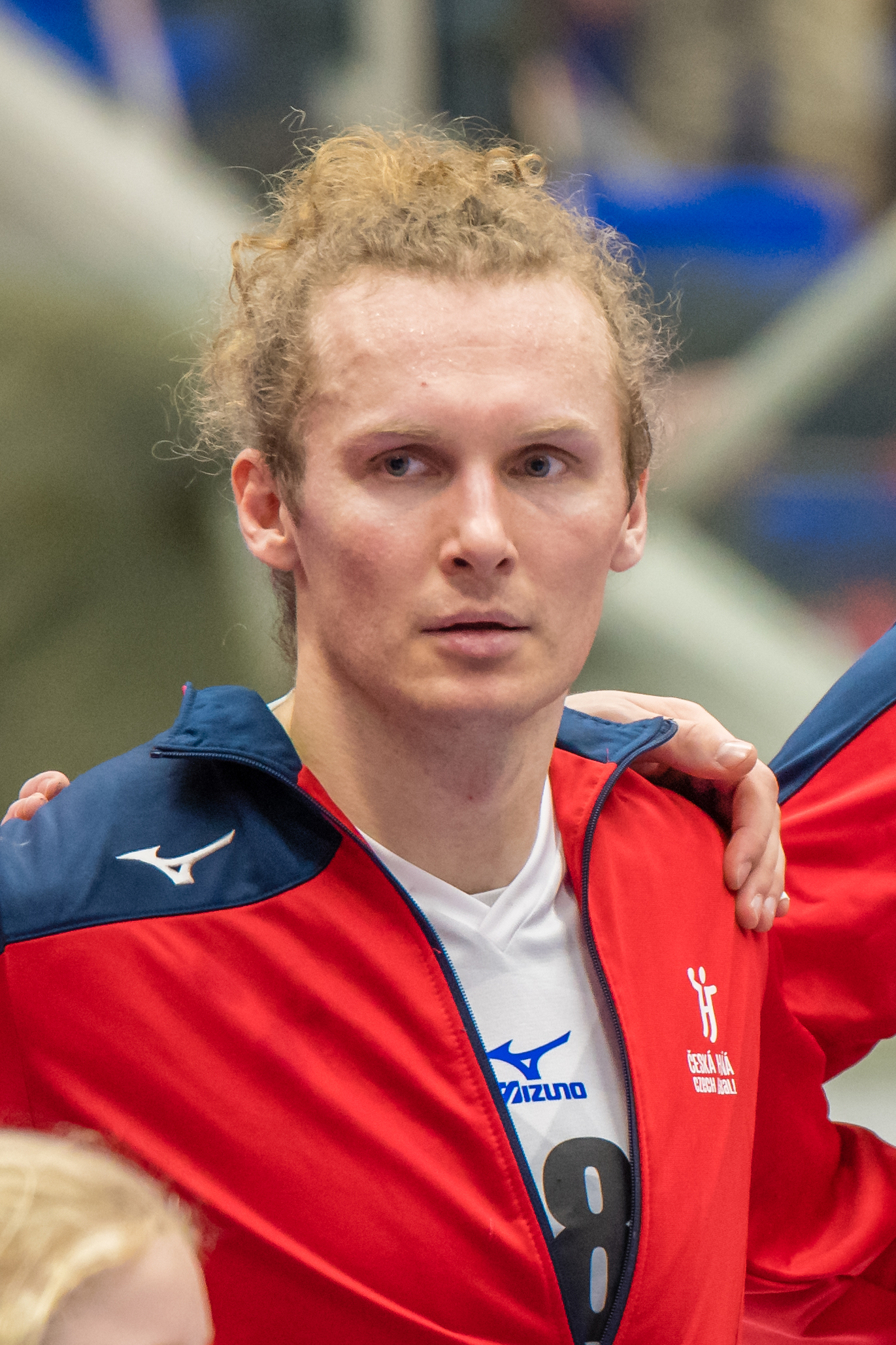 Men's handball Austria Czechia 2018-01-05, picture shows Jan Stehlík (CZE)